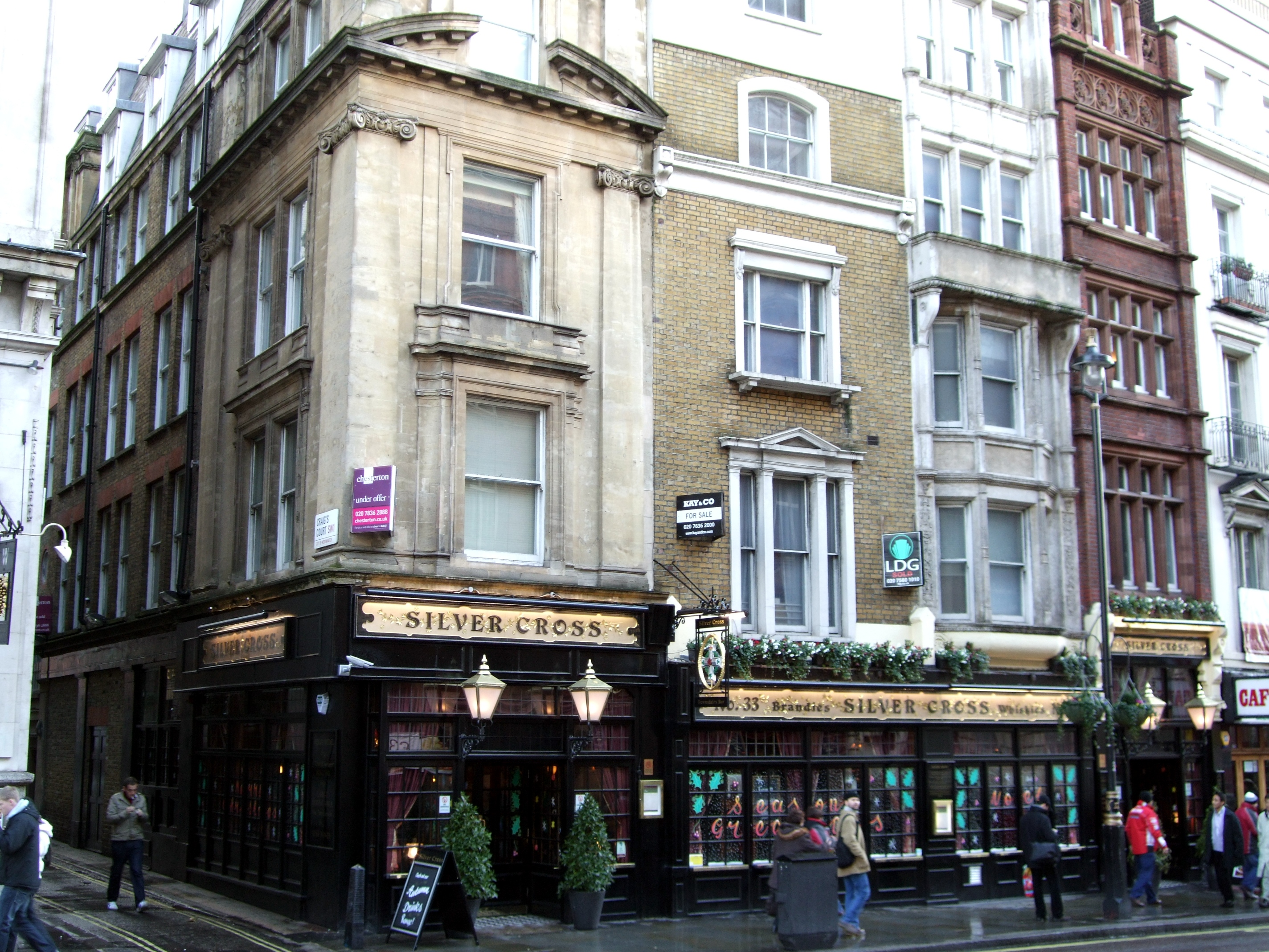 A bland chain pub which seems to have taken over several adjoining buildings. Address: 33 Whitehall (formerly Charing Cross). Former Name(s): The Silver Cross Tavern. Owner: Spirit Pub Company [Taylor Walker] (website); Punch Taverns [Spirit Group] (former); Scottish and Newcastle [T&J Bernard] (former). Links: Fancyapint Beer in the Evening Qype Dead Pubs (history)